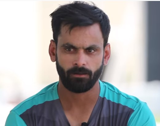 Mohammad Hafeez, Pakistani Cricketer in 2017.